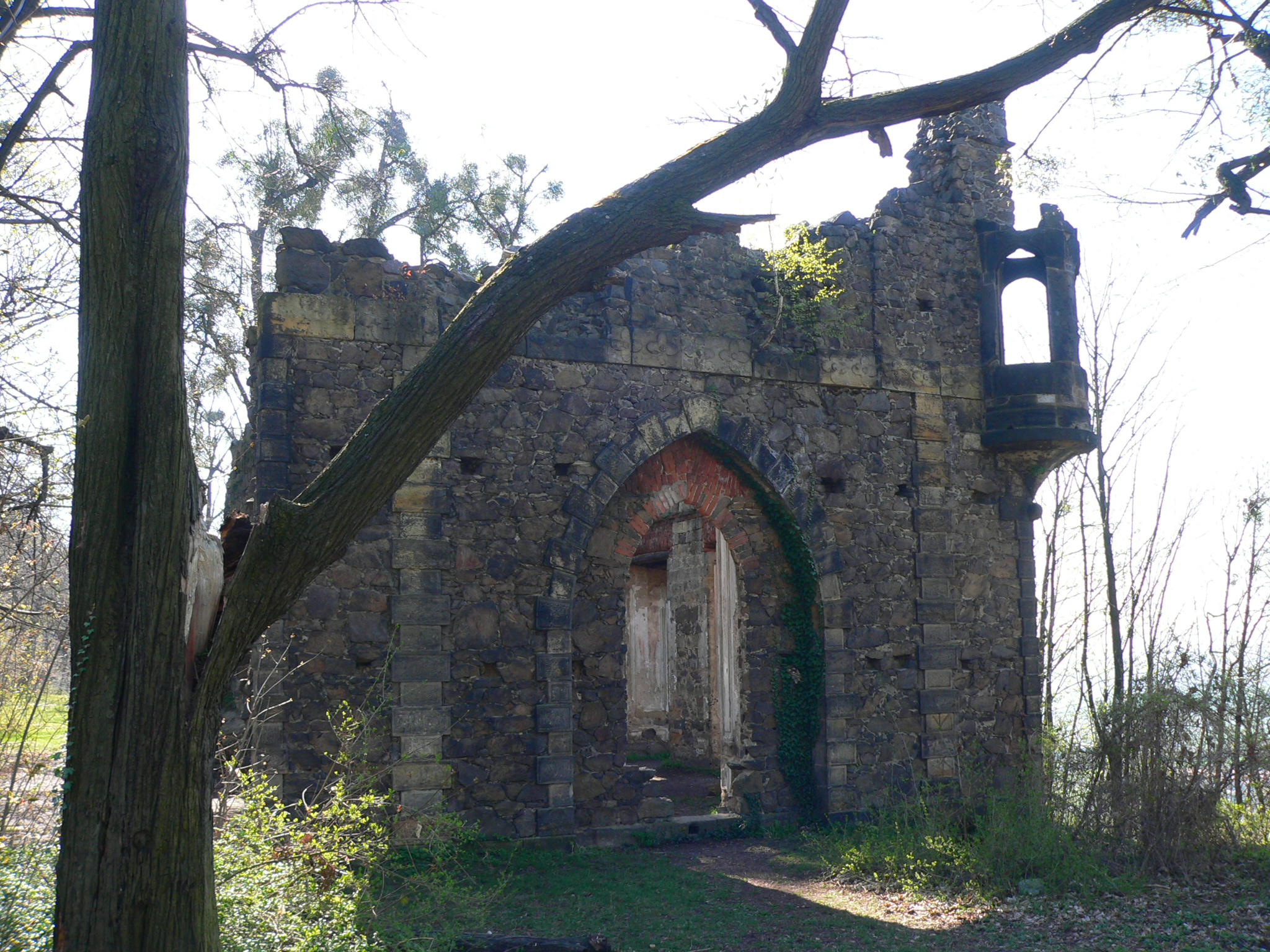 Artificial ruin near Pillnitz Castle